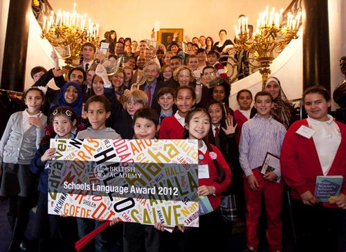 British Academy Schools Language Award Winners